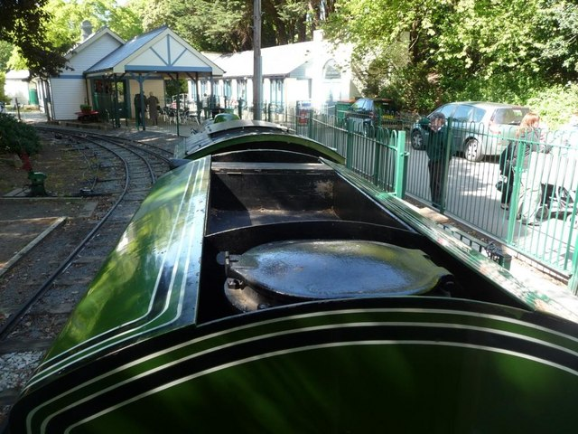 Coming into the station at Peasholm Park